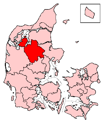 Map of Viborg County 1793-1970